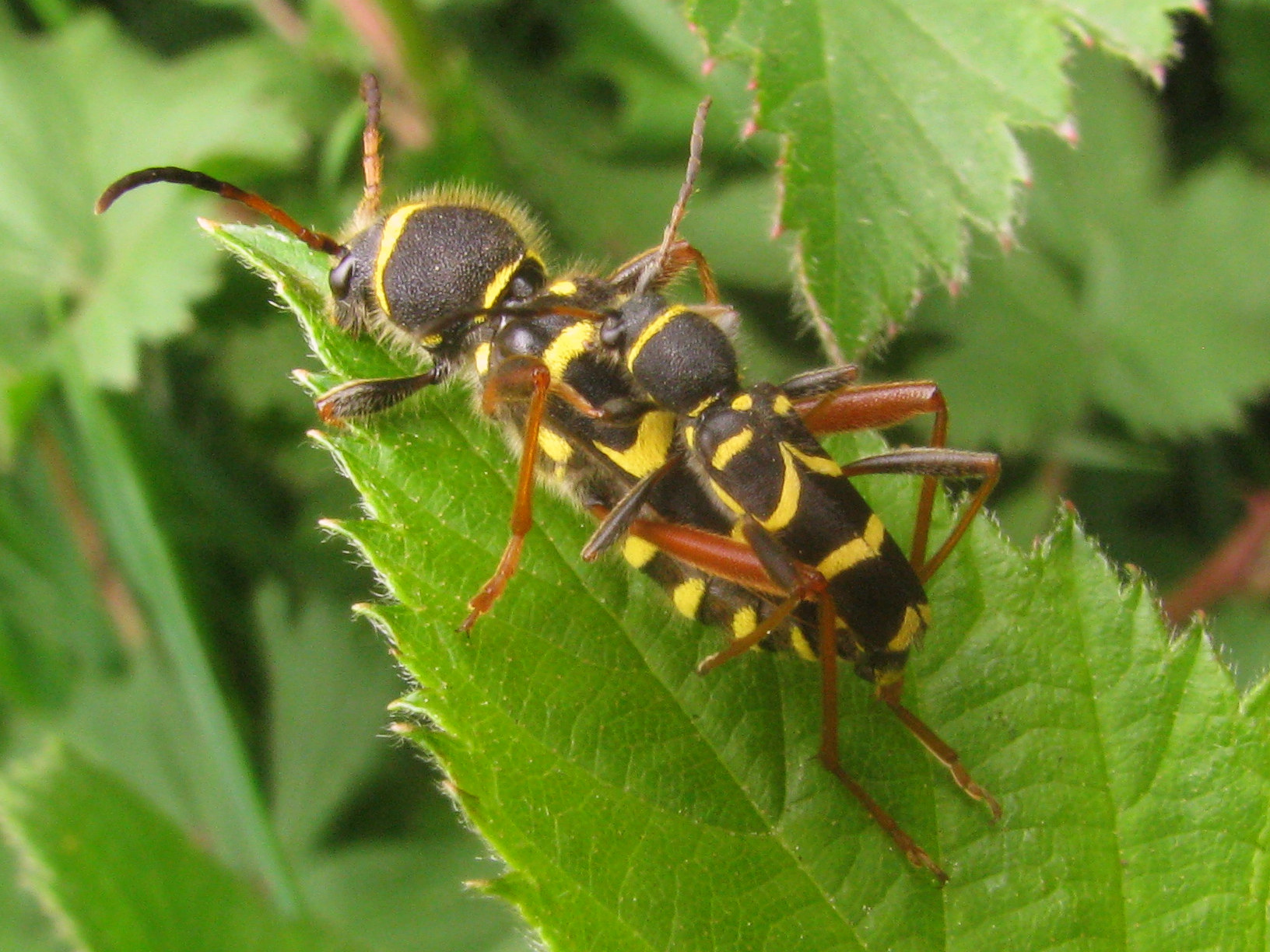 Wasp beetle Clytus arietis in copulaLocation: Hasseler Es, Hengelo, NetherlandsKeywords: Longhorn, Cerambycidae